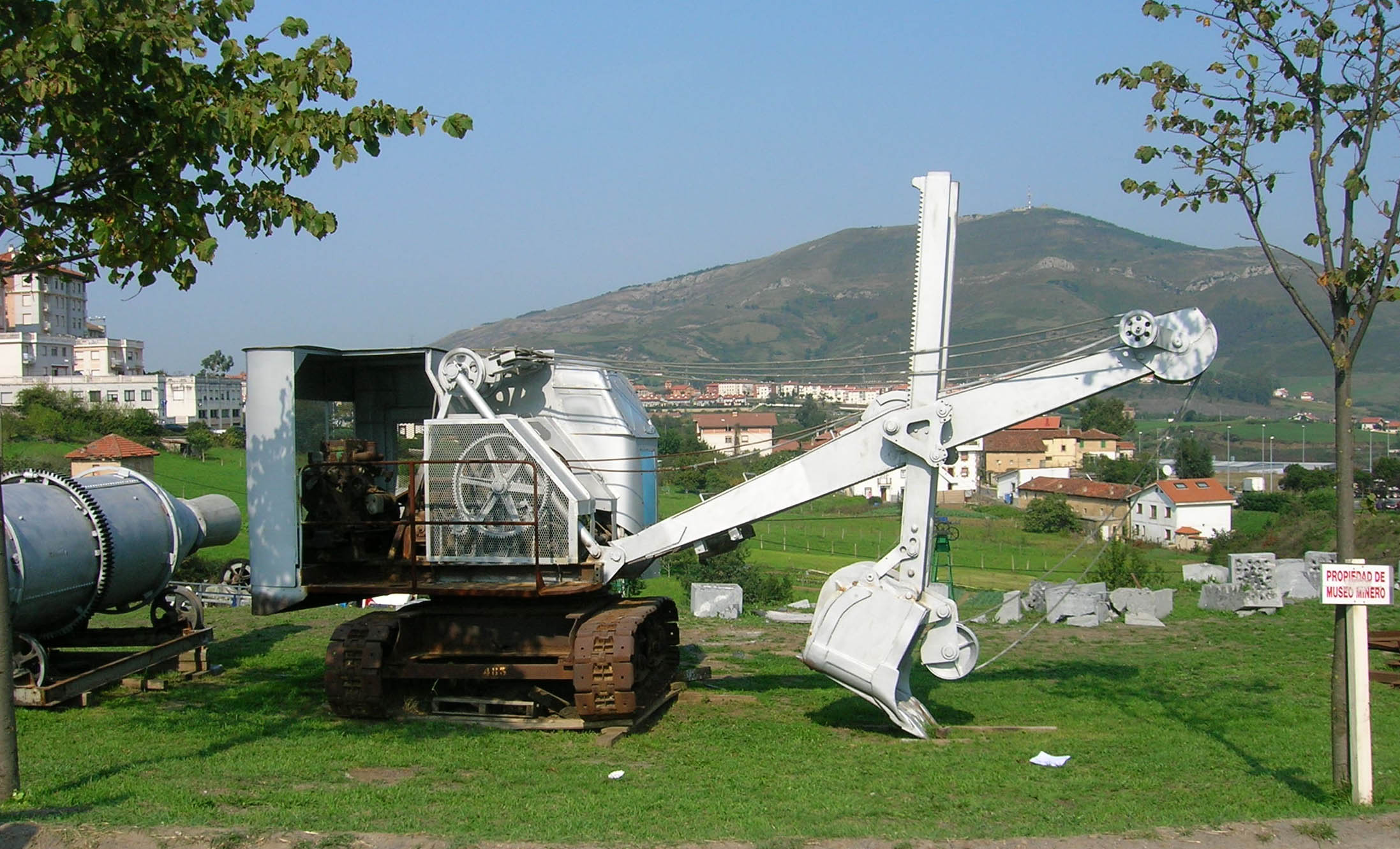 20th century mining excavator, currently in the Basque Country's Mining Museum. Behind it, there are some houses of Gallarta. In the background, mount Punta Lucero. Taken in Gallarta, Abanto-Zierbena, Biscay, Spain.